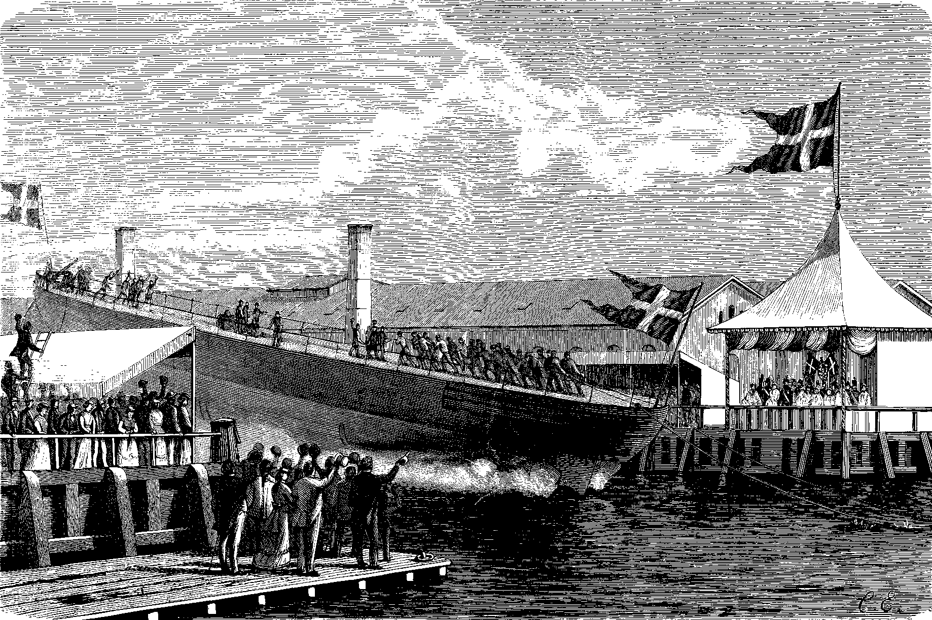 The Danish ironclad Lindormen was launched on the 8th of August 1868 at Orlogsværftet in Copenhagen. Among the onlookers were the Danish majesties, in the pavillion to the right. This drawing by Christian Eckardt appeared in Illustreret Tidende on August 16 1868.